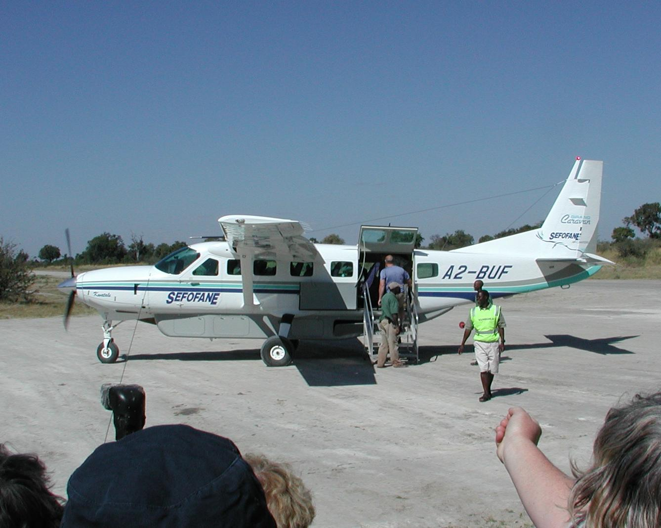 Cessna 208 Caravan (A2-BUF) of Sefofane Air Charter (now Wilderness Air) at Vumbura airstrip, Botswana